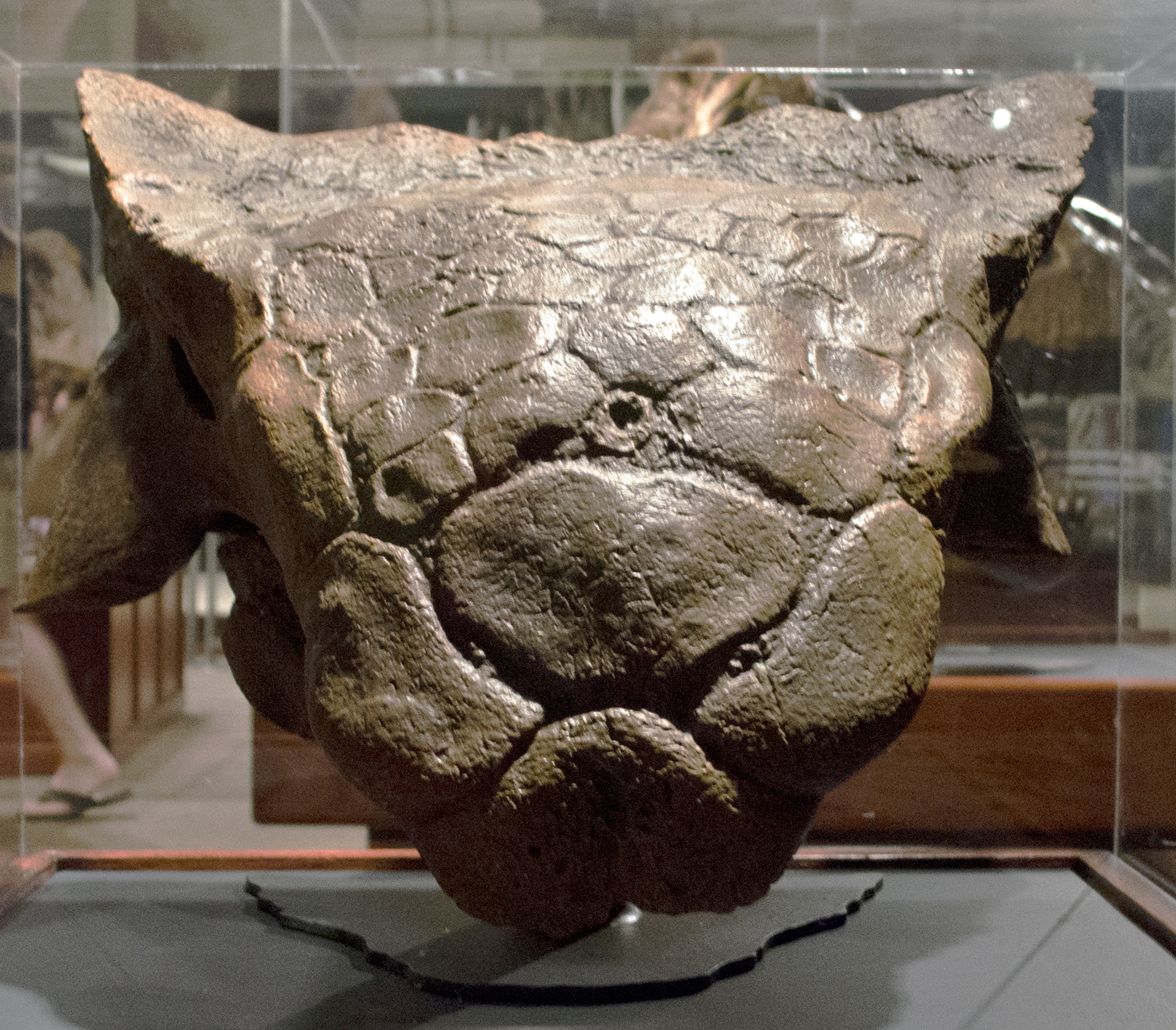 An Ankylosaurus head (cast of specimen AMNH 5214), on display at the Museum of the Rockies in Bozeman, Montana. This is from a specimen collected in Custer County, Montana. The Ankylosauria were armored dinosaurs that lived from 122 million years ago to 66 million years ago in western North America, Europe, and East Asia. There were two subgroups: The Nodosauridae and Ankylosauridae. The Ankylosauridae contained six species, and a single subfamily -- the Ankylosaurinae. There 18 genus within the subfamily, of which Ankylosaurus is the best known. Ankylosaurus as the last of these, and lived 65.5 to 66.5 million years ago. Ankylosaurus was about 20.5 feet long, 5 feet wide, and 5.5 feet tall at the hip. It walked on all fours, with the rear legs longer than the front ones. They ripped vegetation, and swallowed it whole. Their defining feature was their armor. They body was covered in thick, heavy bony plates, and most of the plates were fused together to make them even stronger. Embedded in the skin were more knobs of bone, and the outer skin above these knobs covered in keratin (the same stuff fingernails are made of). Ankylosaurus had a tail club, which consisted of several large osteoderms fused to the last few tail vertebrae. Ankylosaurus was discovered in 1908.